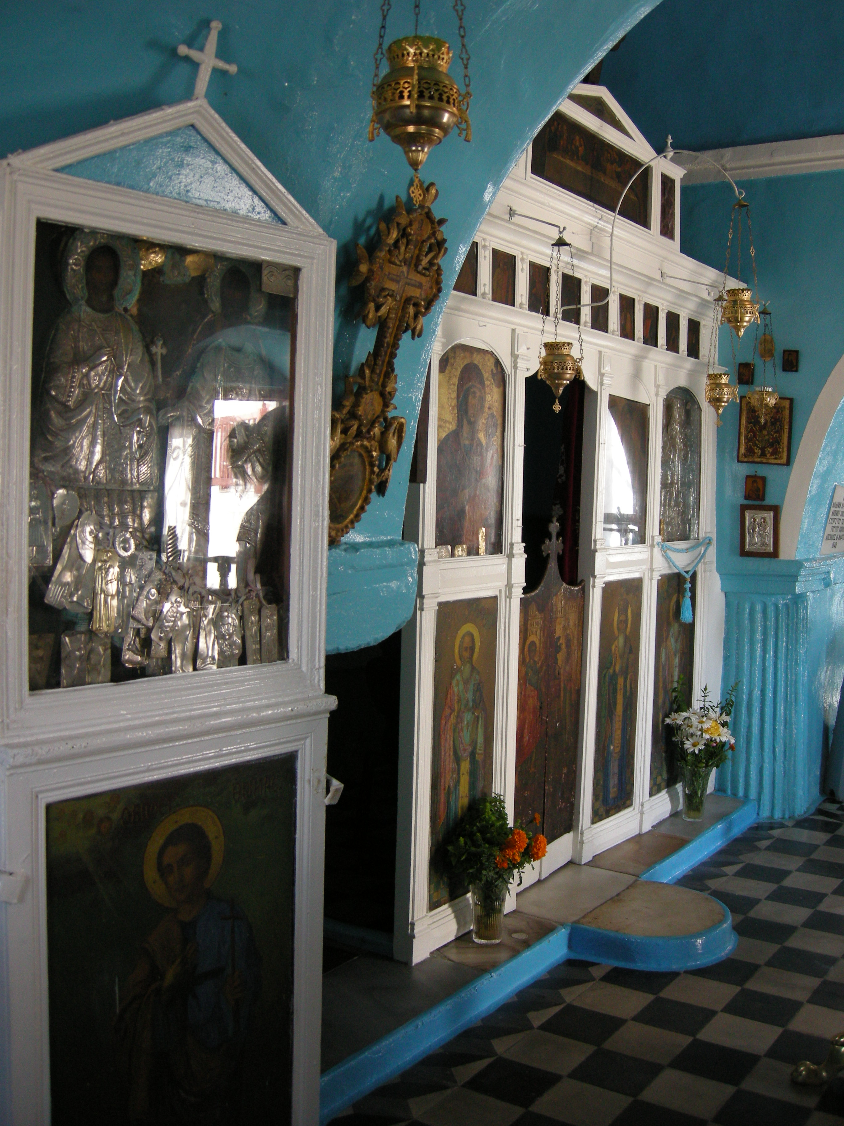 Church in mykonos